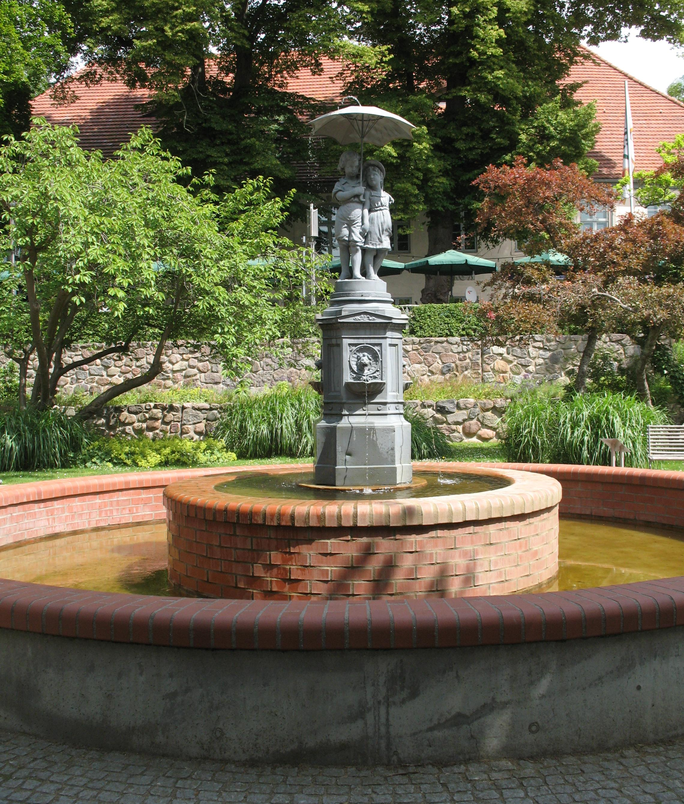 Fountain by Christian Genschow in Lübz in Mecklenburg-Western Pomerania, Germany